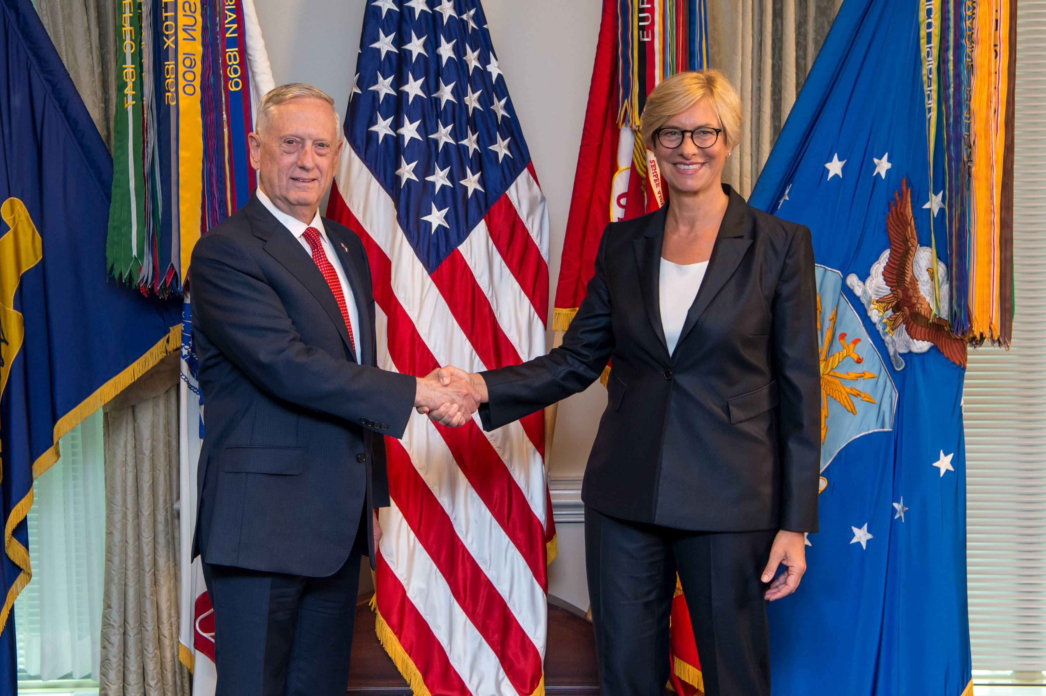 Secretary of Defense Jim Mattis meets with Italy’s Minister of Defense Roberta Pinotti at the Pentagon in Washington, D.C., July 11, 2017. (DOD photo by U.S. Air Force Staff Sgt. Jette Carr)